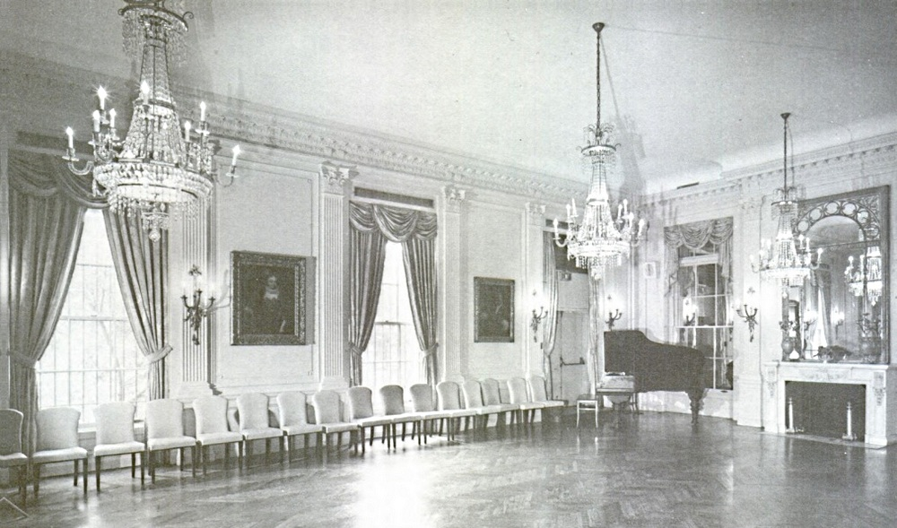 Looking northeast at the ballroom of the Patterson Mansion at 15 Dupont Circle in Washington, D.C., in the United States.